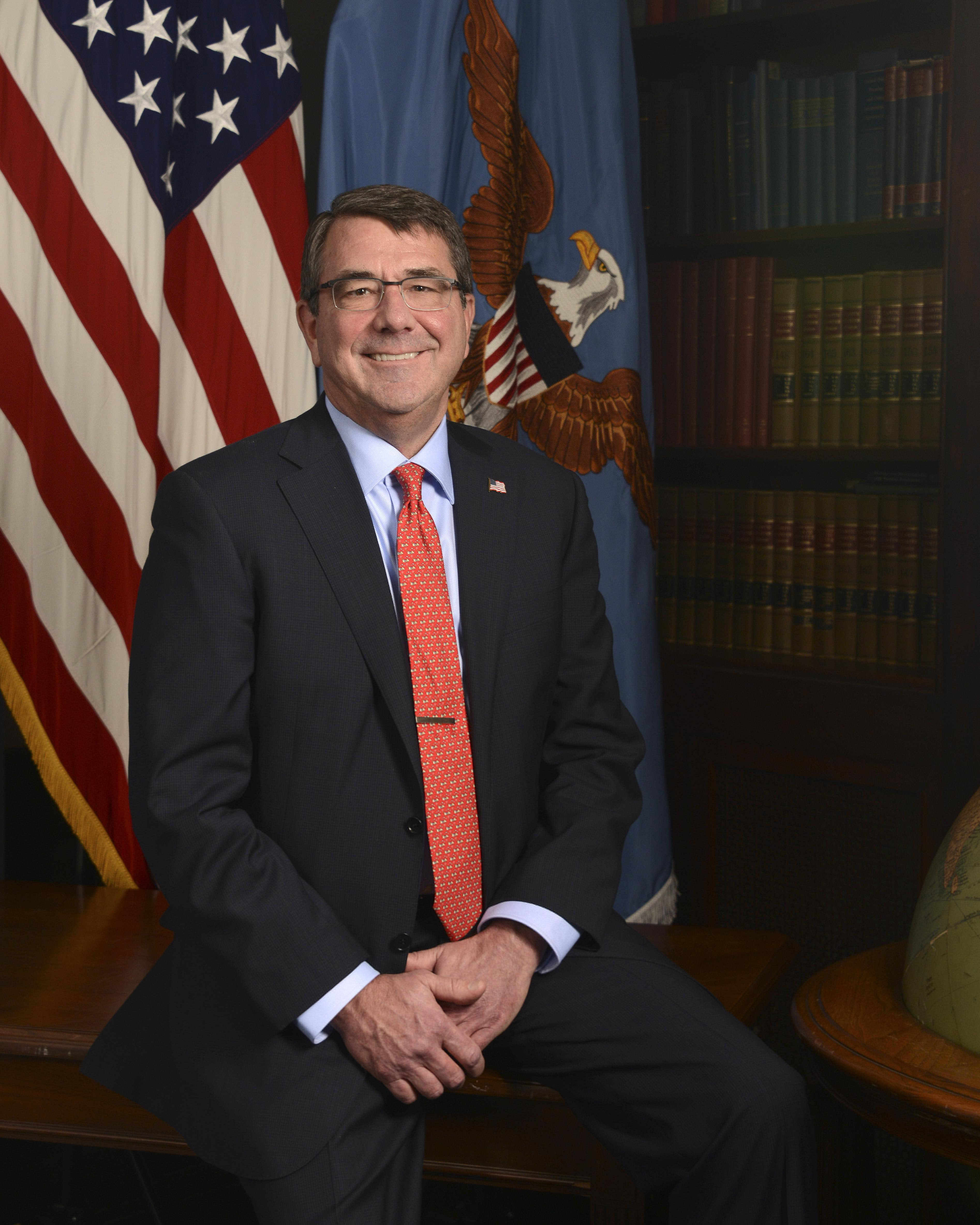 Ash Carter, former US Secretary of Defense, official portrait